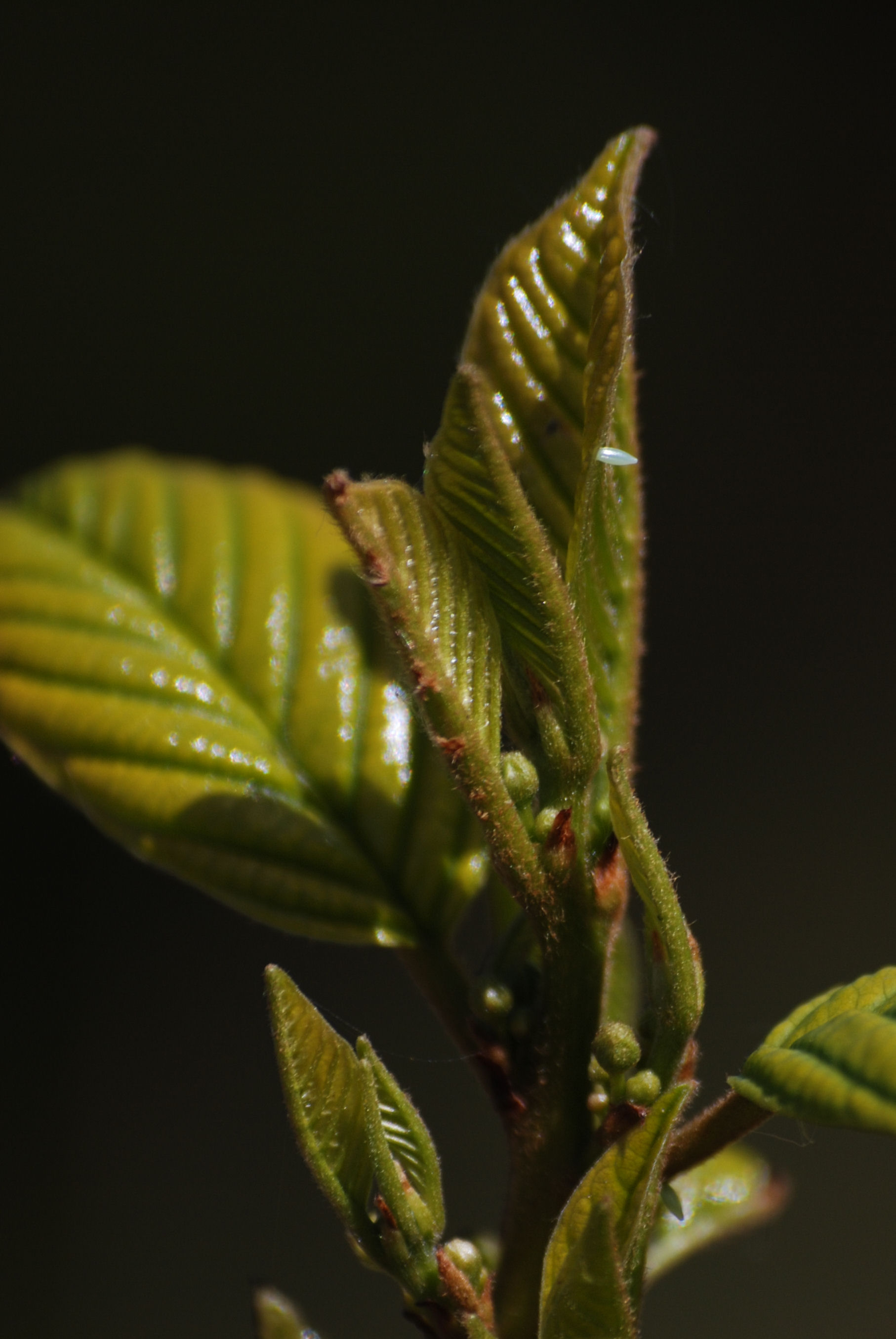 Eg of Gonepteryx rhamni